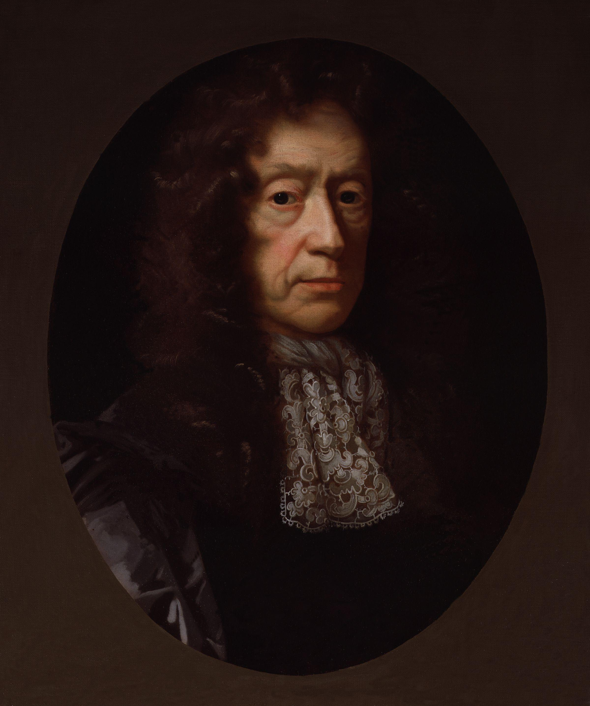 Edmund Waller, by John Riley (died 1691). All images in this batch have been confirmed as author died before 1939 according to the official death date listed by the NPG.